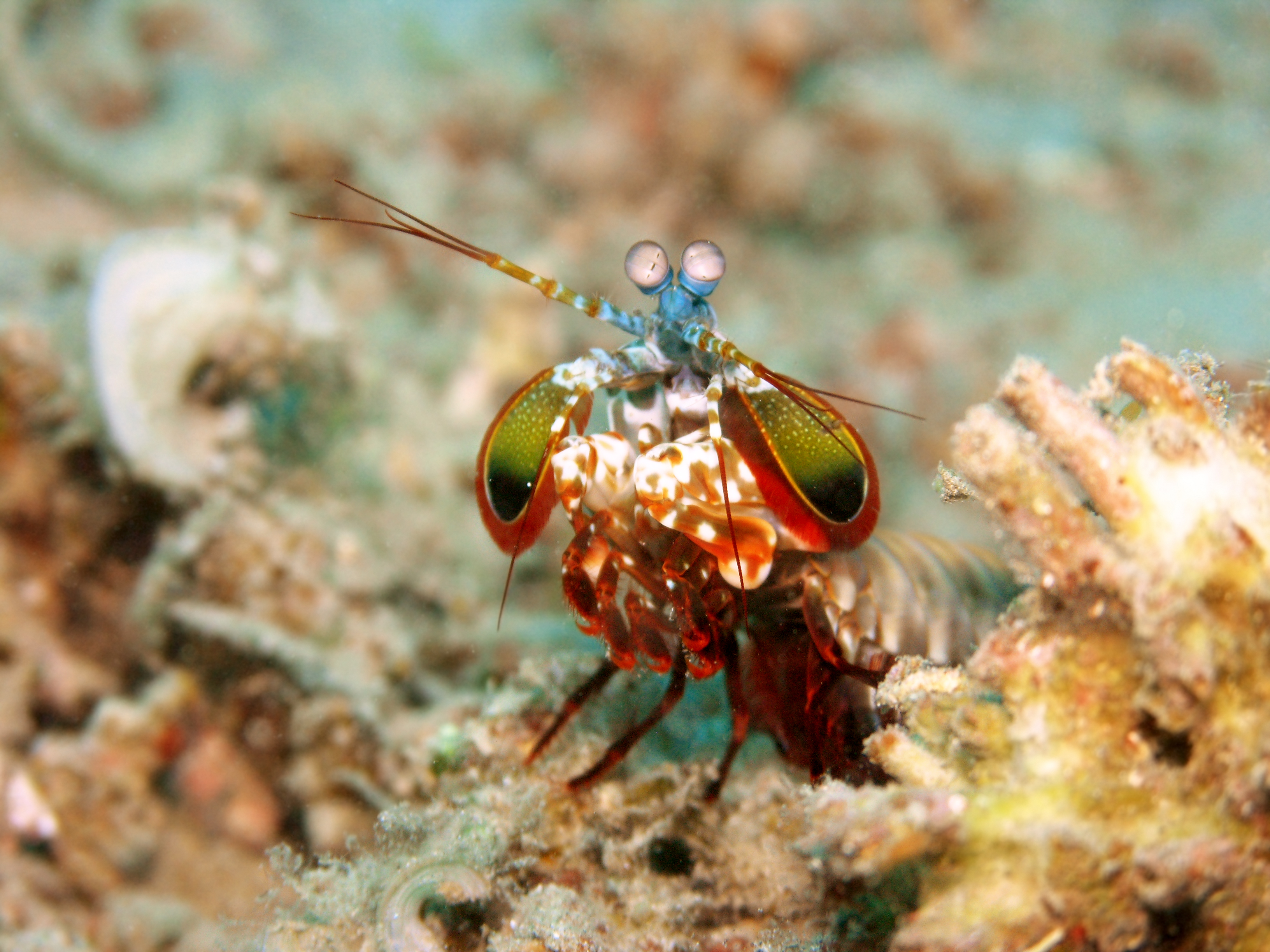 Picture of peacock mantis shrimp (Odontodactylus scyllarus). Taken at Tasik Ria house reef. Manado, Indonesia.